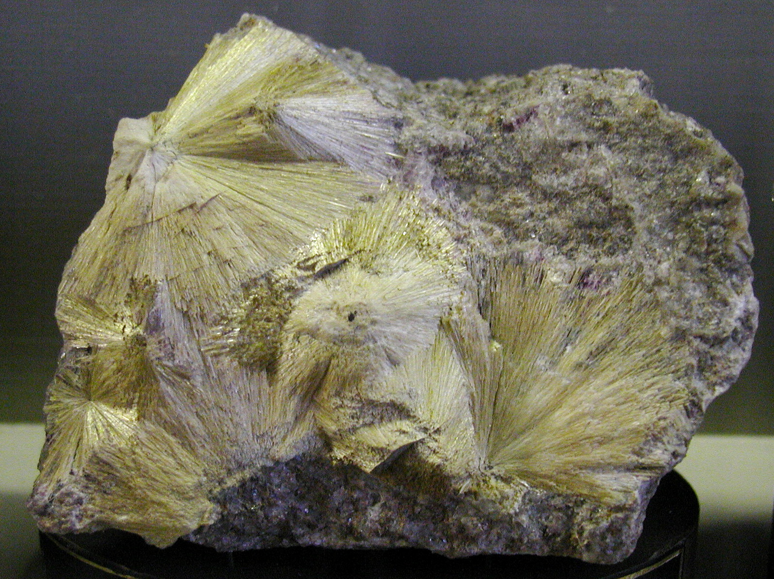 Carpholite - National museum of Prague